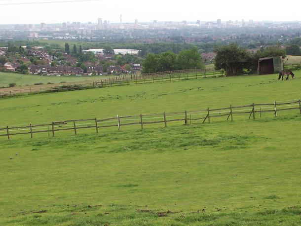 View towards Pheasey. On the horizon you can see Birmingham city centre, including the BT Tower. The large white building in the middle distance is the Asda store, just inside Birmingham.